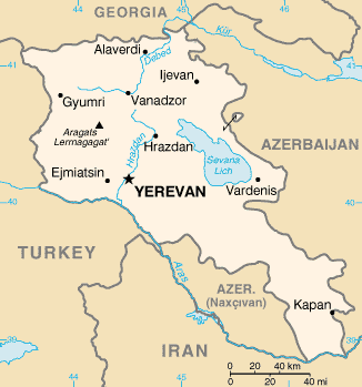 Armenia map